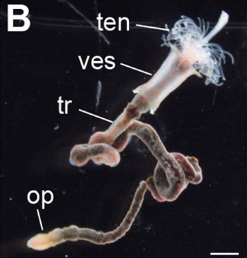 A body of the vestimentiferan tubeworm Lamellibrachia satsuma, removed from the tube. The scale bar shows 1mm.